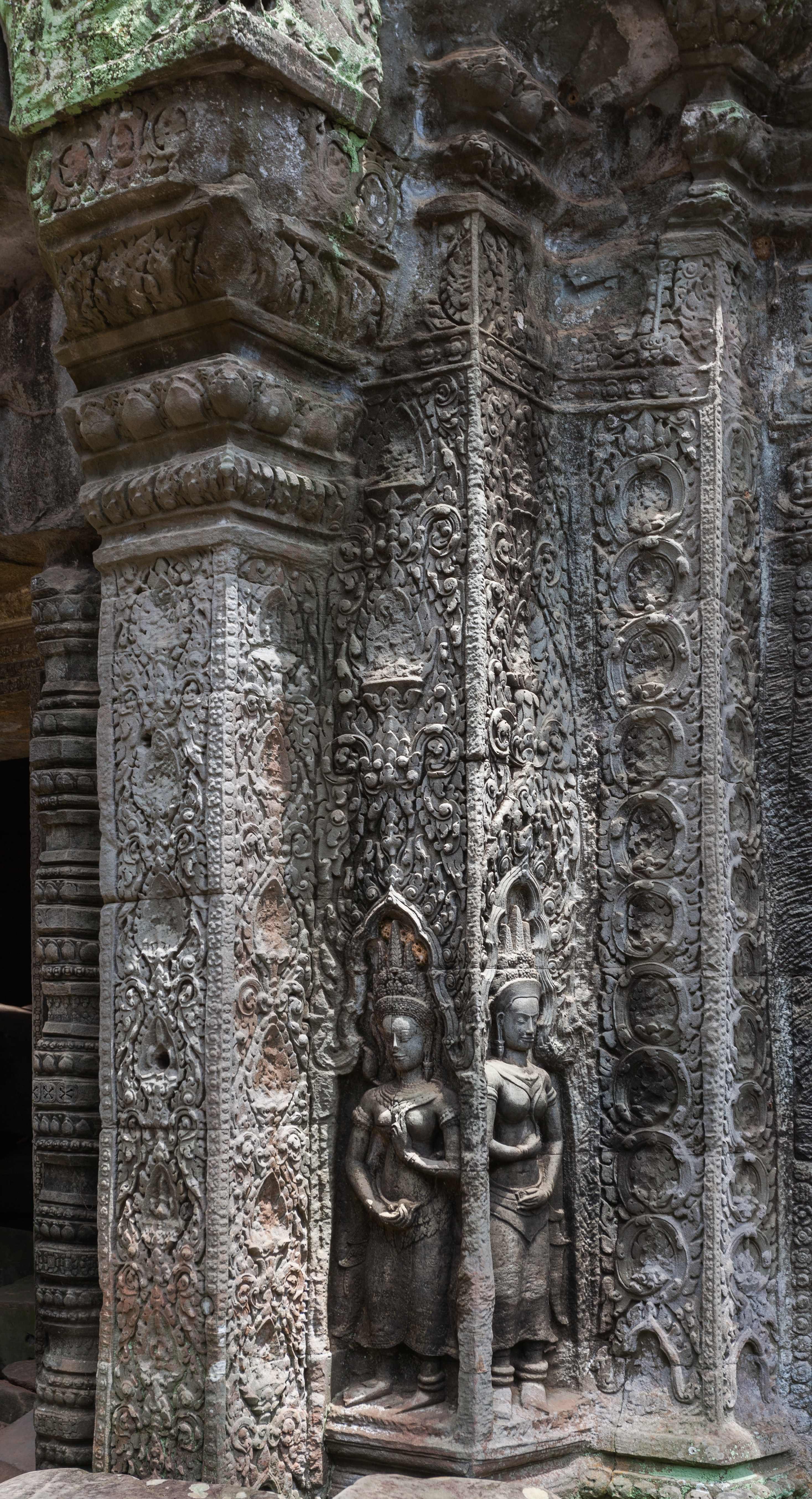 Relief in Ta Phrom, Angkor, Cambodia